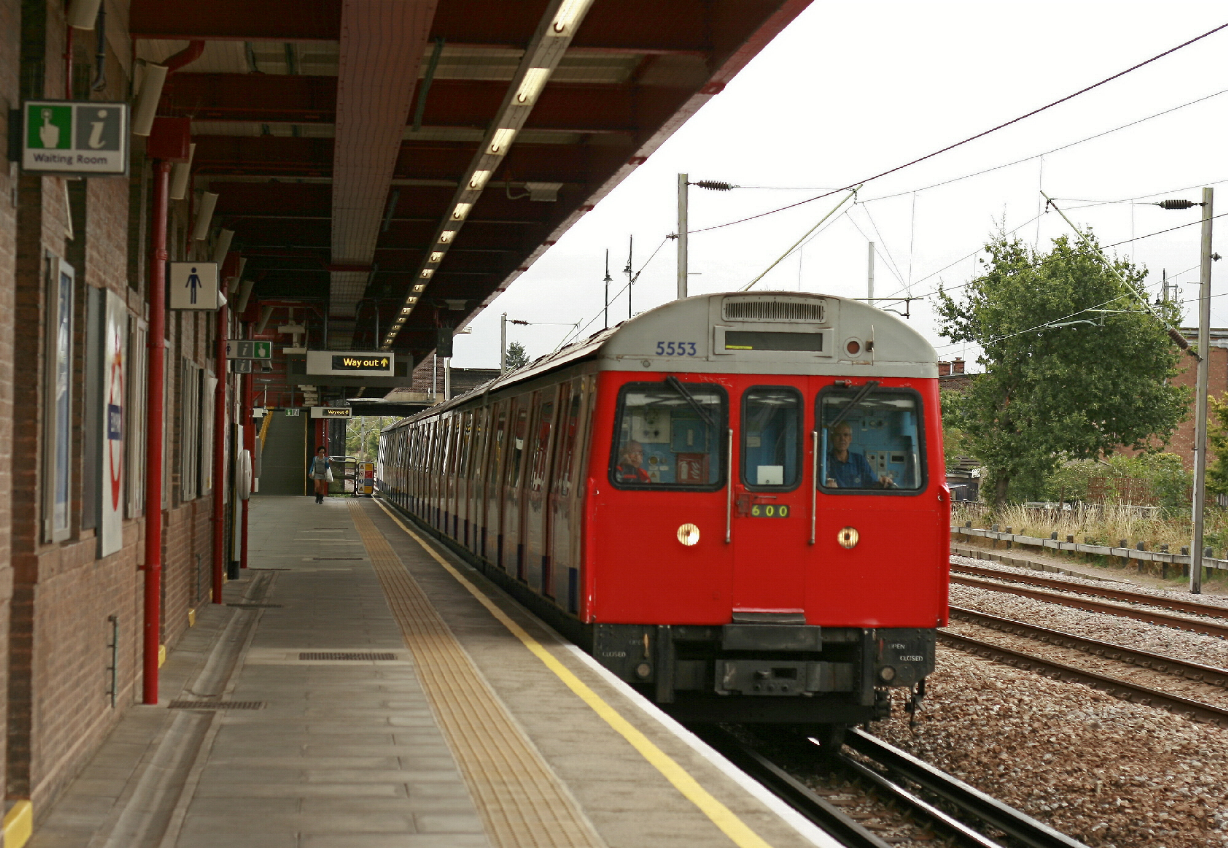 C stock train at Elm Park station